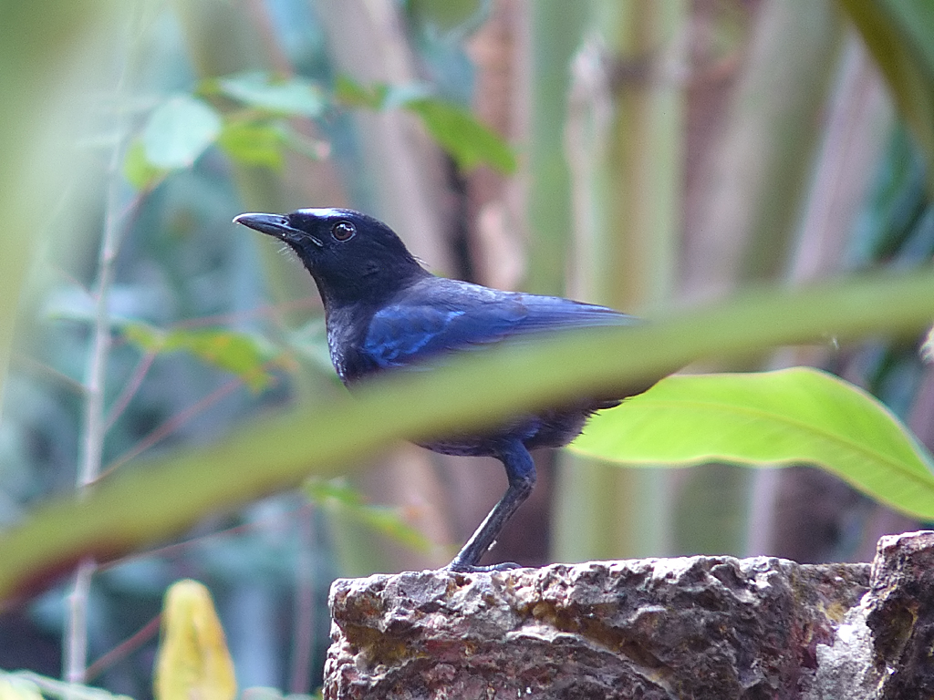 This bird is a renowned vocalist having a beautiful, almost human, whistling call. No wonder it is often also called the "whistling schoolboy". It also has a rather harsh, high-pitched call. In the winter months we are often woken up early in the mornings before day-break by this birds sweet whistling which is a pleasure to listen to. If interested in listening to this bird, click here . It has a blue-black plumage with the blue more prominent on the wings and forehead where there is a arrow-like blue marking. It is a solitary bird that has a peculiar gait. Often seen in culverts and garbage dumps looking for grubs. Eats insects, snails, frogs and crustaceans.